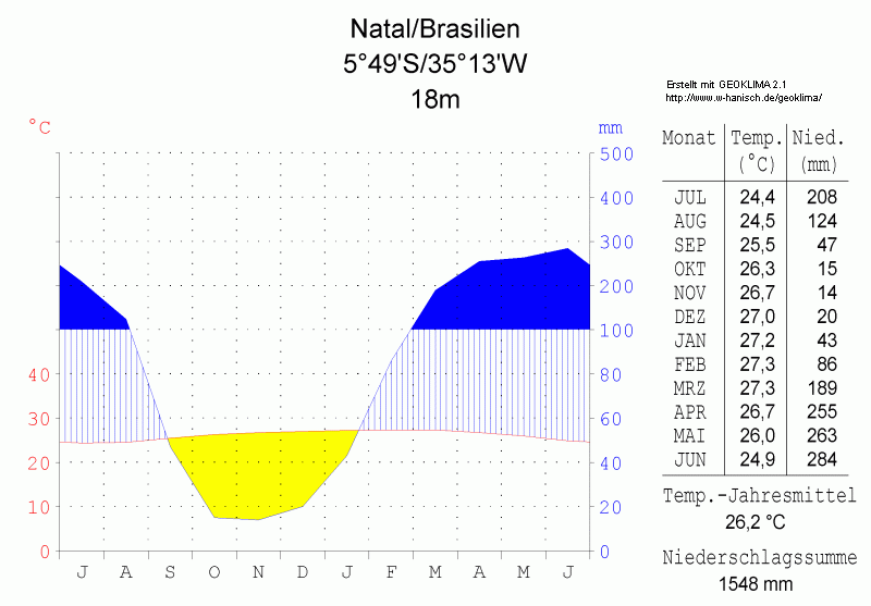 climate chart in the format by Walther and Lieth, metric, °Celsisus and millimeters, made with Geoklima 2.1